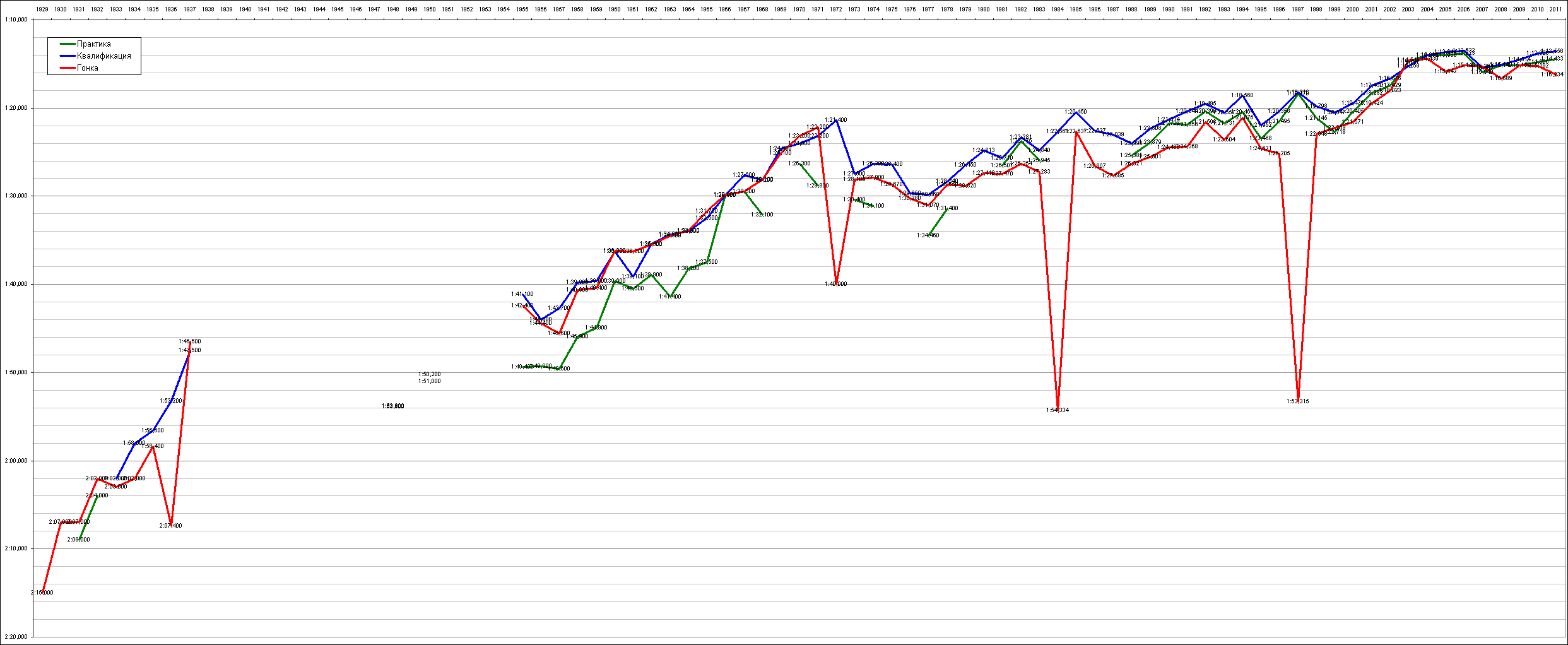 Diagramm of Lap Times of Monaco Grand Prix 1929-2011.